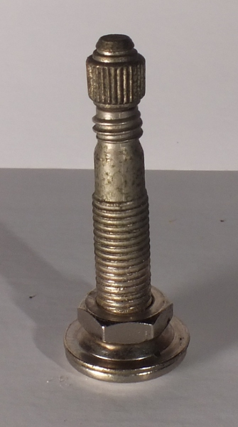 Regina Valve with its metal cap on